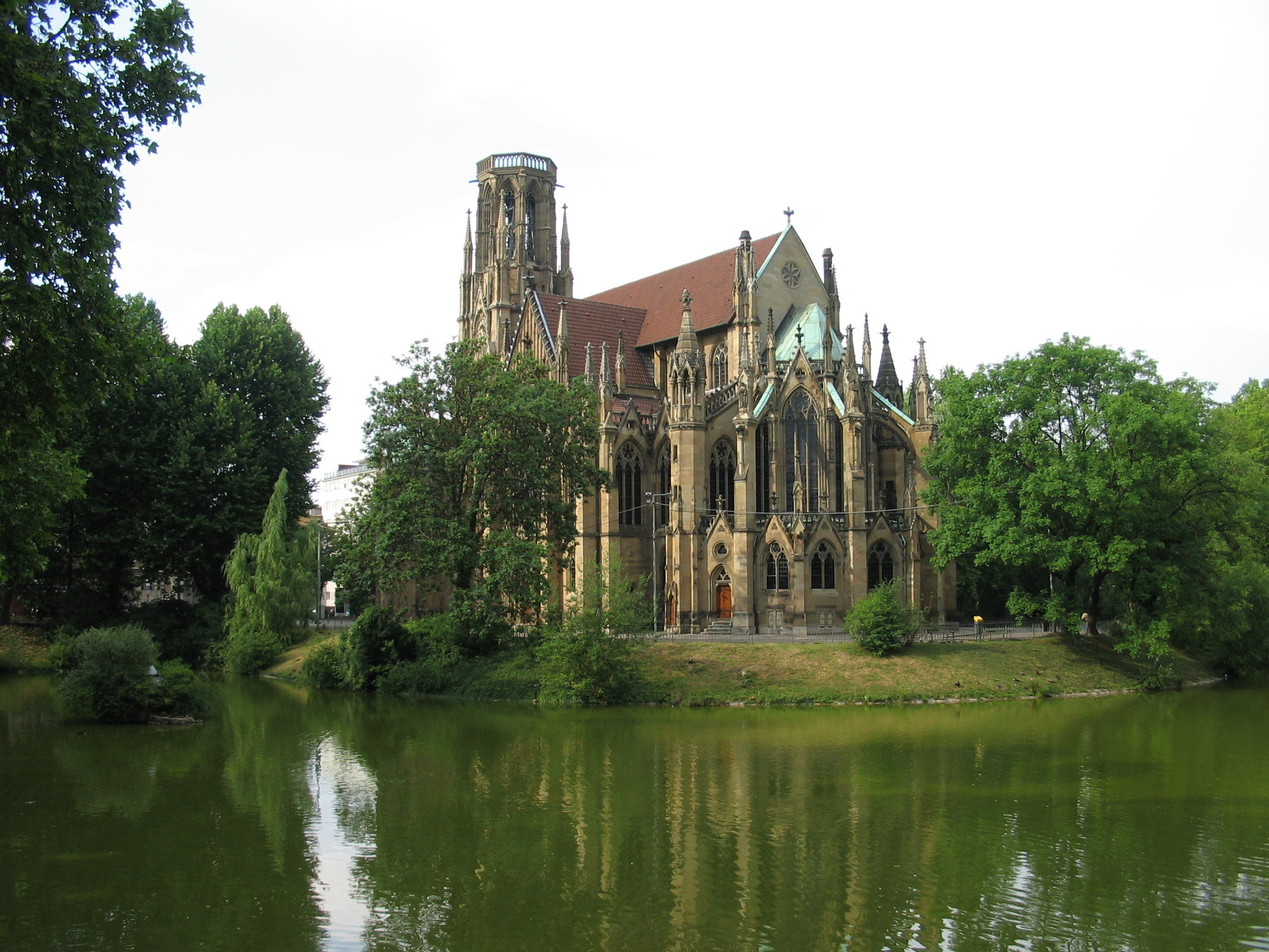 Stuttgart, Feuersee, Johanneskirche.